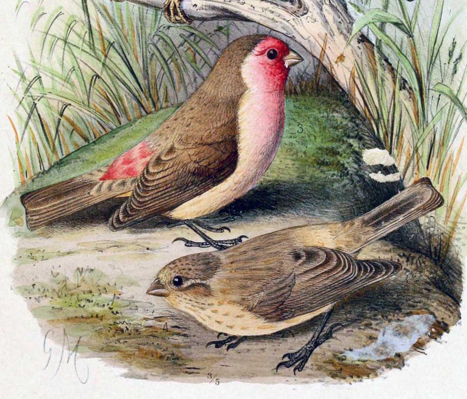 « Carpodacus stolickzae » = Carpodacus stoliczkae stoliczkae (Subspecies of Pale rosefinch) - male (3) and female (4)